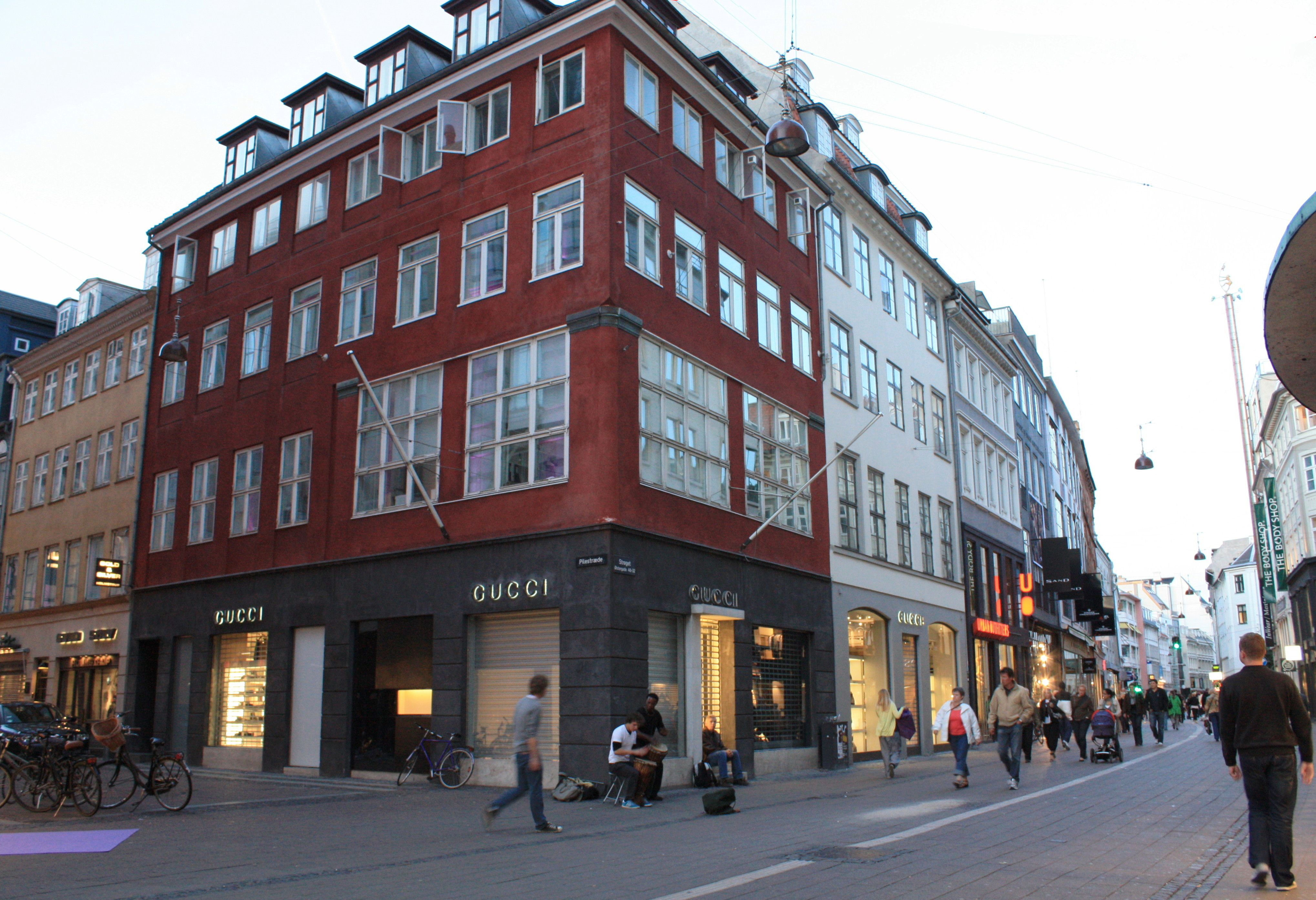 Gucci Shop on Strøget in Copenhagen, Denmark